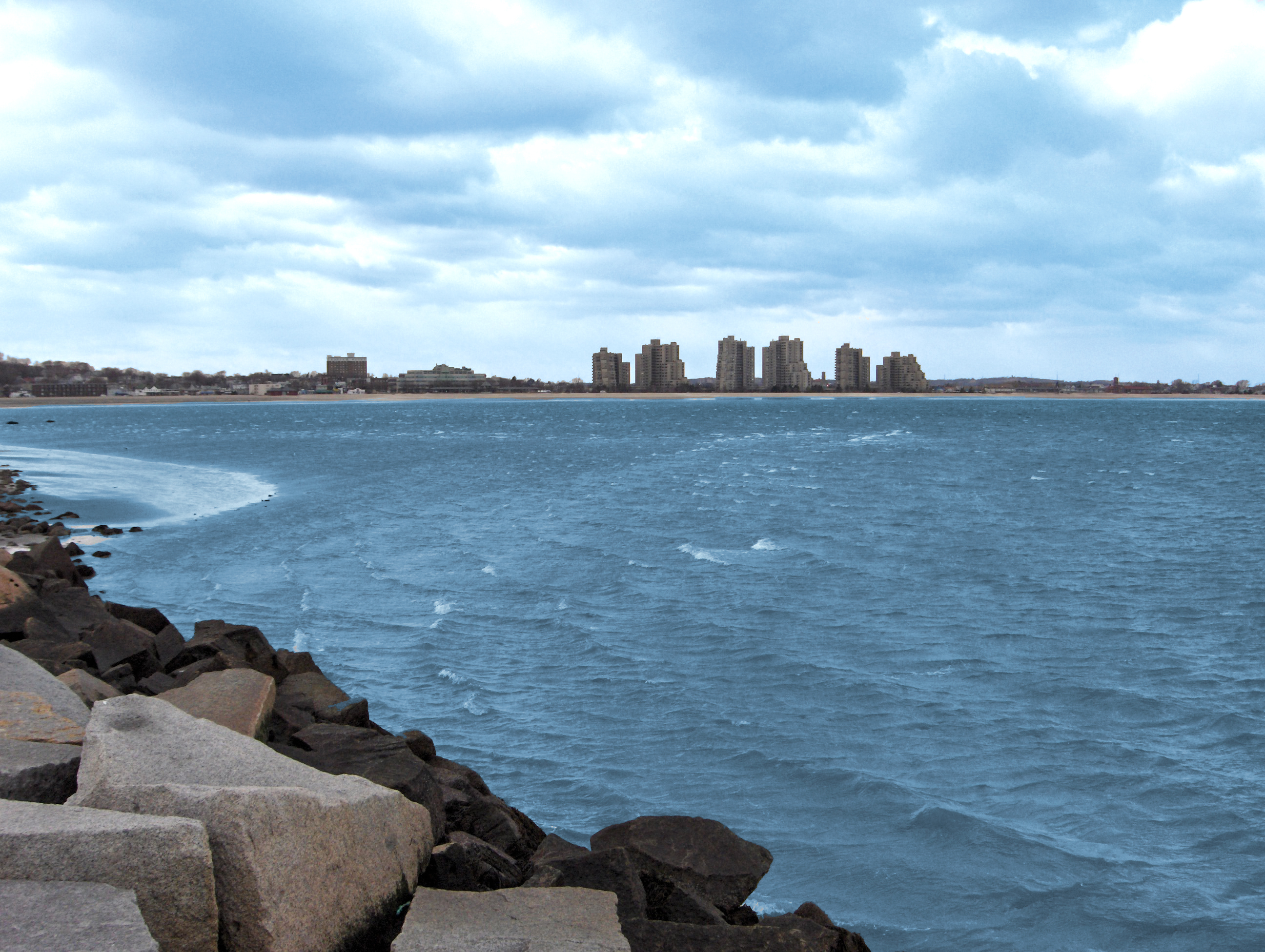 A view of Revere Beach in its current state. Taken from the breakers, looking towards the Crescent Beach.